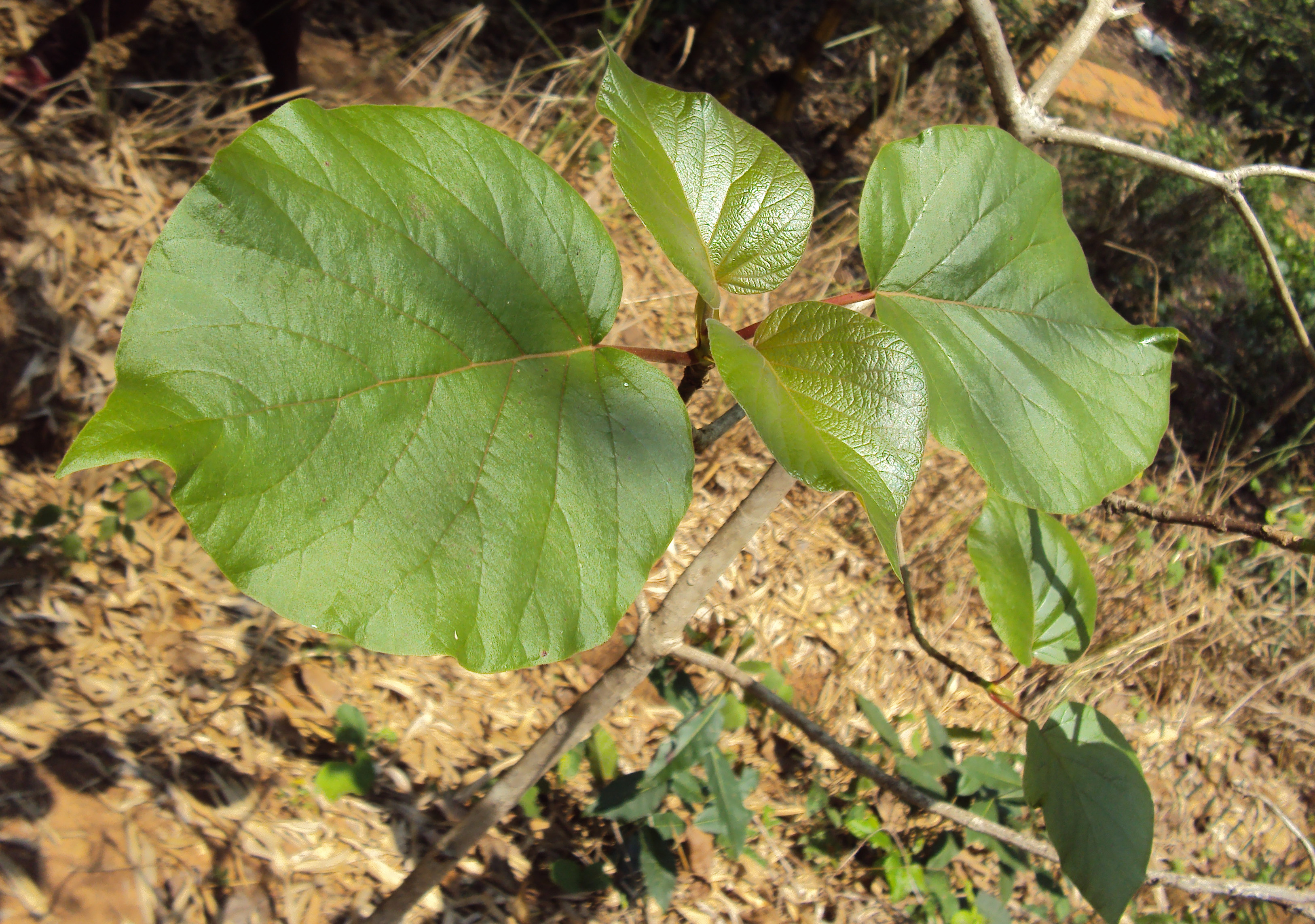 Haldina cordifolia